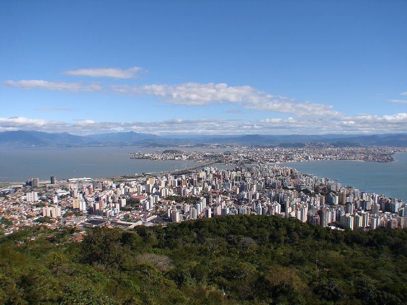 Panoramic view of Florianópolis, Brazil, from Morro da Cruz.